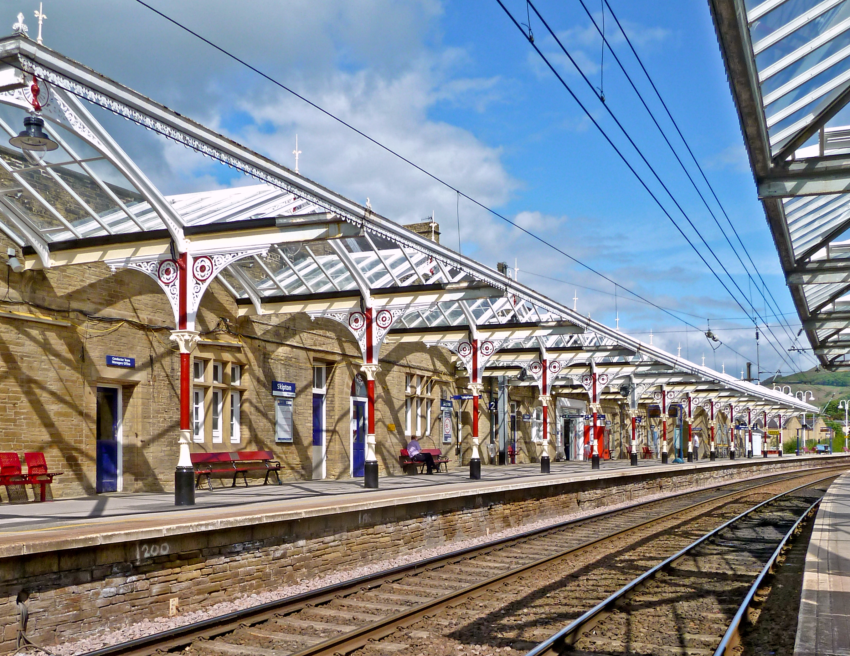 Skipton railway station taken by Flickr user Tim Green aka atouch on the afternoon of Saturday the 1st of June 2013 (2013:06:01 15:52).